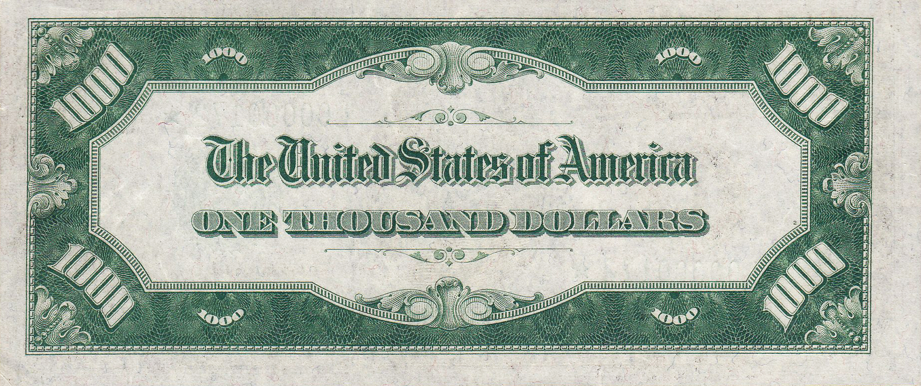 1000 dollars bill (not in use today) Series: 1928 Portrait: Grover Cleveland Back Vignette: The United States of America - One Thousand Dollars